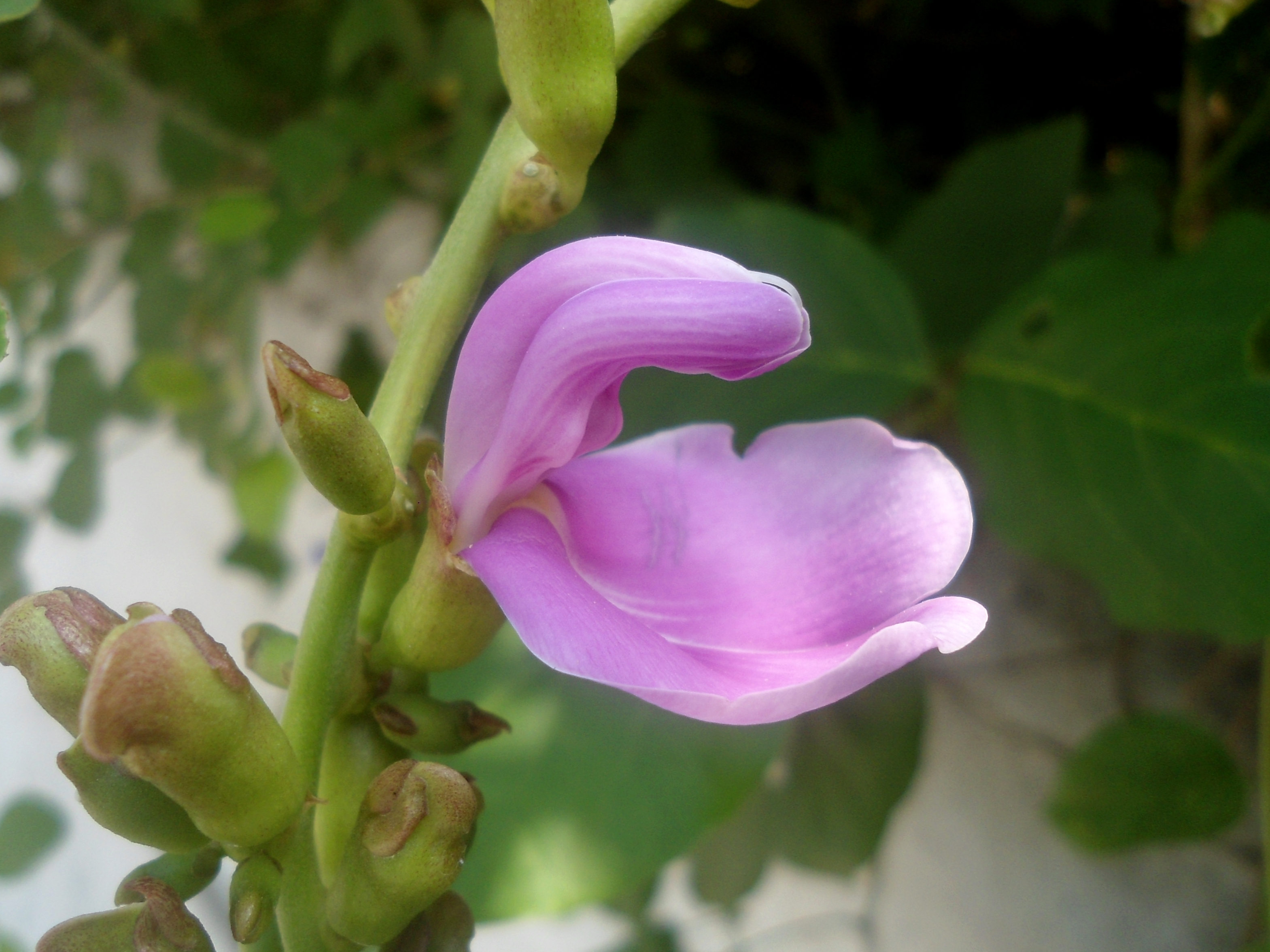 Canavalia lineata (country bean flower) at a Temple in Bhadrachalam, Andhra Pradesh